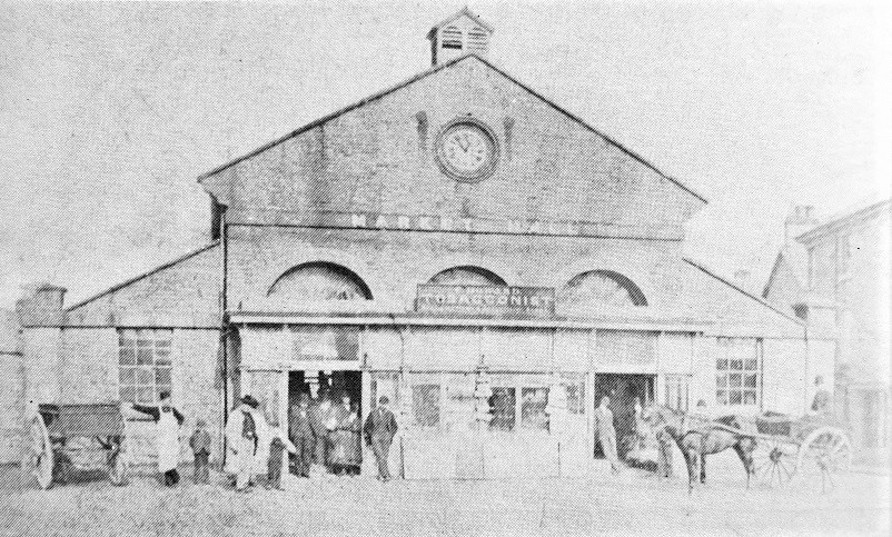 Buxton Market Hall 1857-1885 by Henry Currey